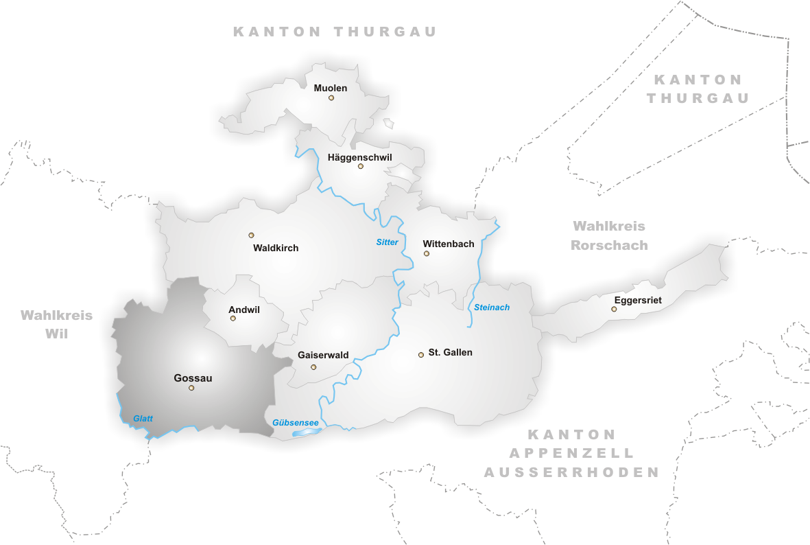 Municipality Gossau